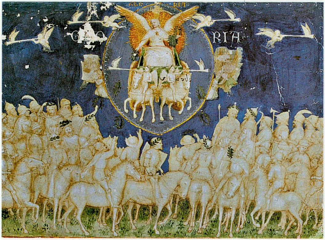 Triumph of Vainglory, from BNF ms. Latin 6069-I, Petrarch's De Viris Illustribus, c.1380. The image is thought to be based on a fresco by Giotto in the palace of Azzone Visconti, in Milan. This is one of the forerunners of the iconographic tradition illustrating Petrarch's Triumphs.